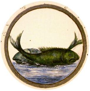 Coat of Arms of Karmėlava city in 1792